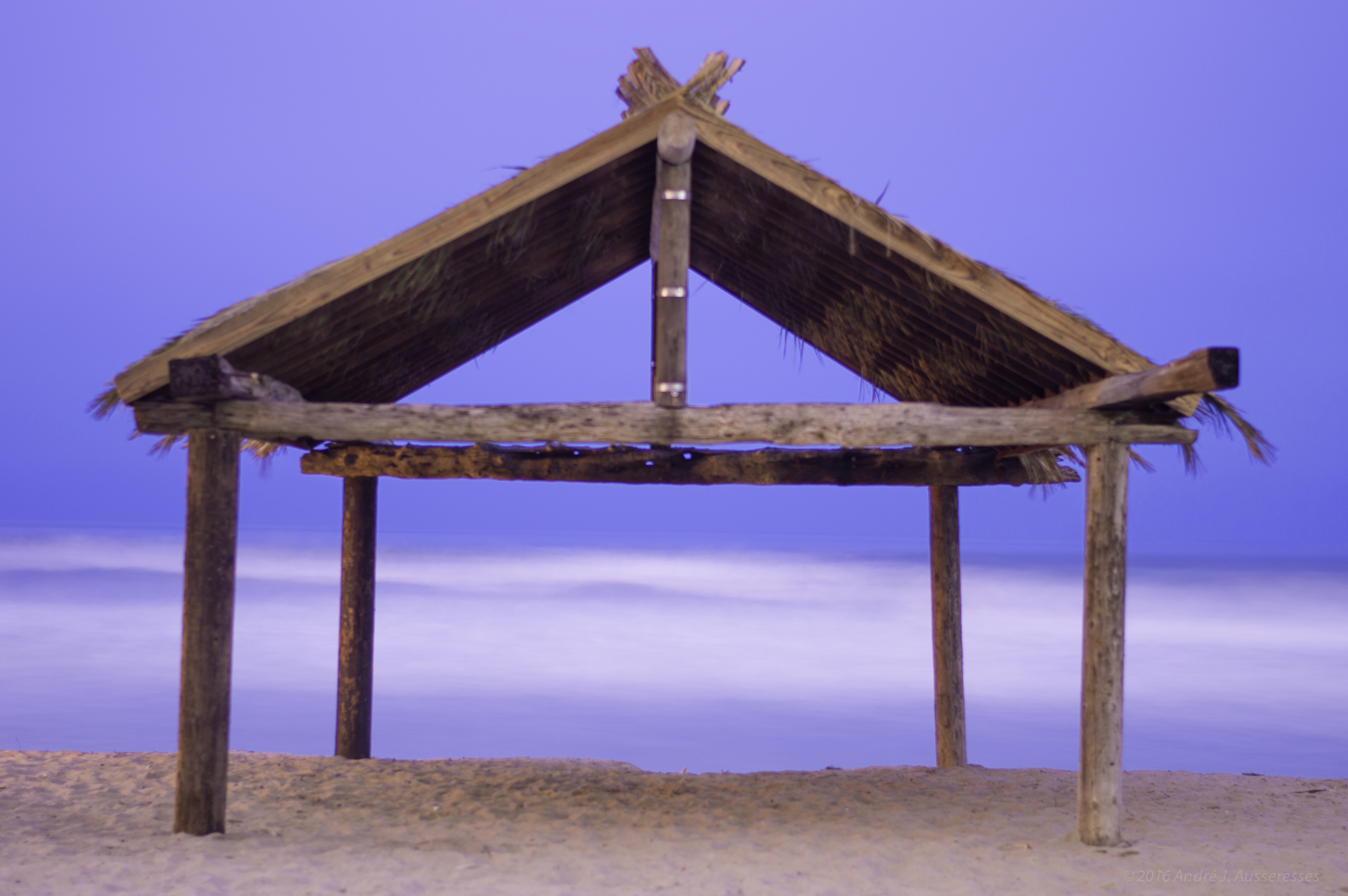 San Onofre, June 2, 2016, after sunset surf session, looking at the breaking waves through the frame of a palm hut, softly illuminated by flames.